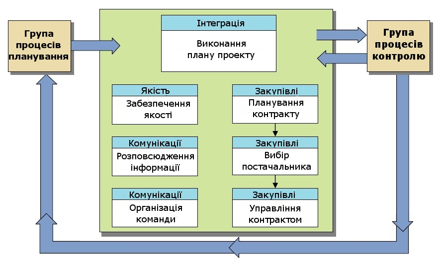 Executing Process Group Processes